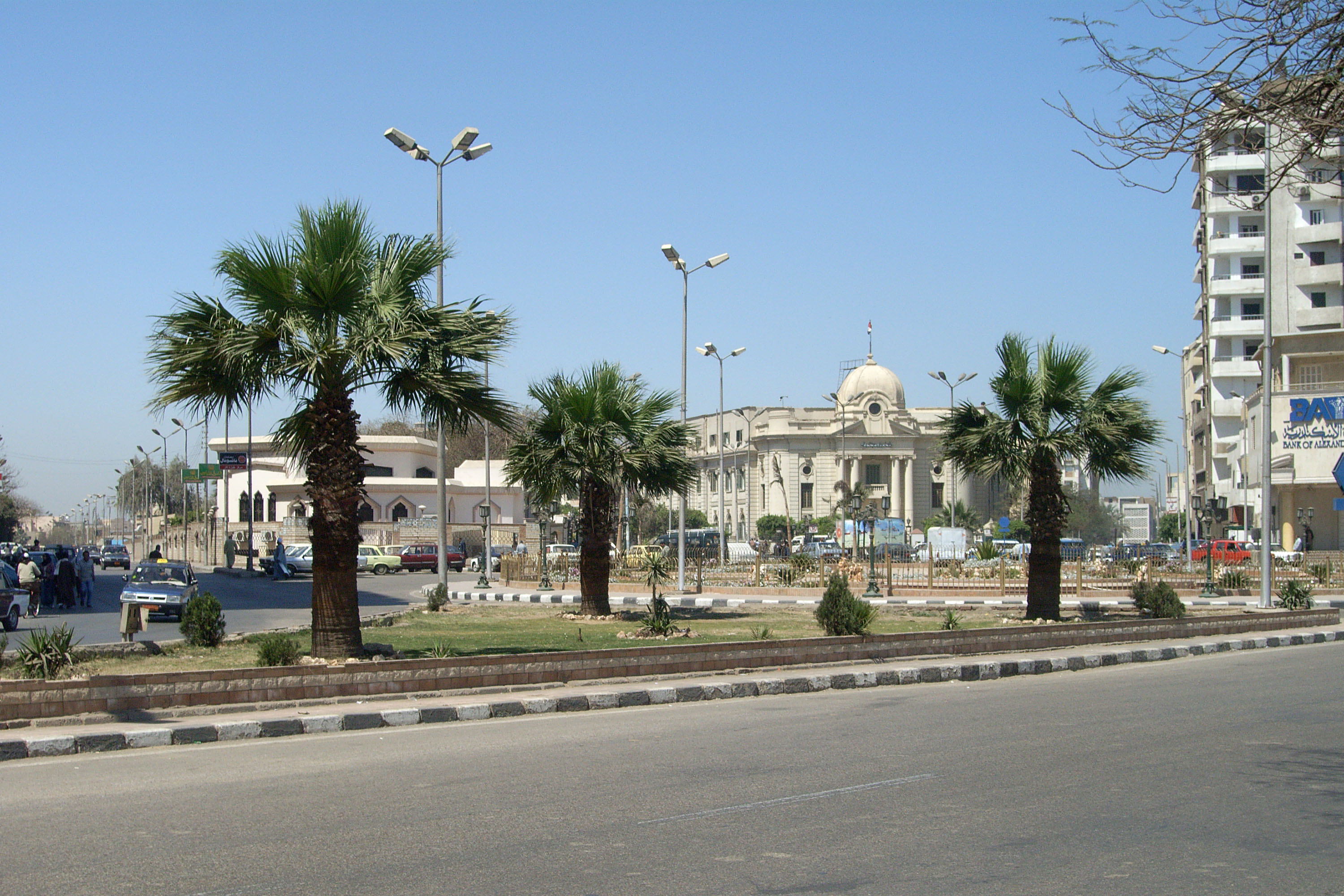 Sohag Midan and city hall, Sohag, Egypt